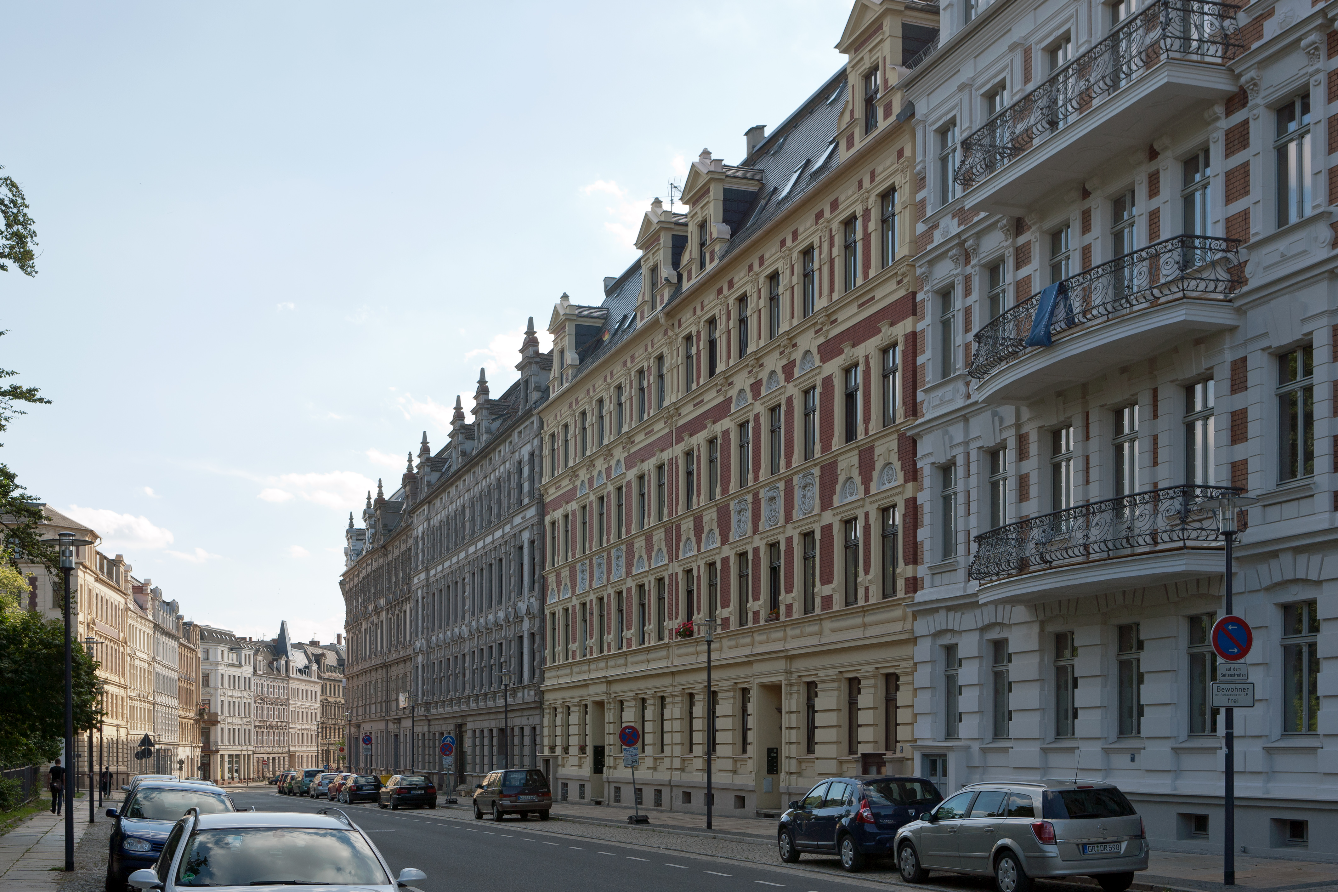 Görlitz: Landeskronstraße (Landeskron Street) as seen from the northeast